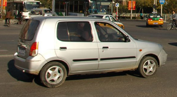 2001-2004 Qinchuan Flyer QCJ7081 (Government owned Qinchuan developed the Flyer, later sold by BYD)